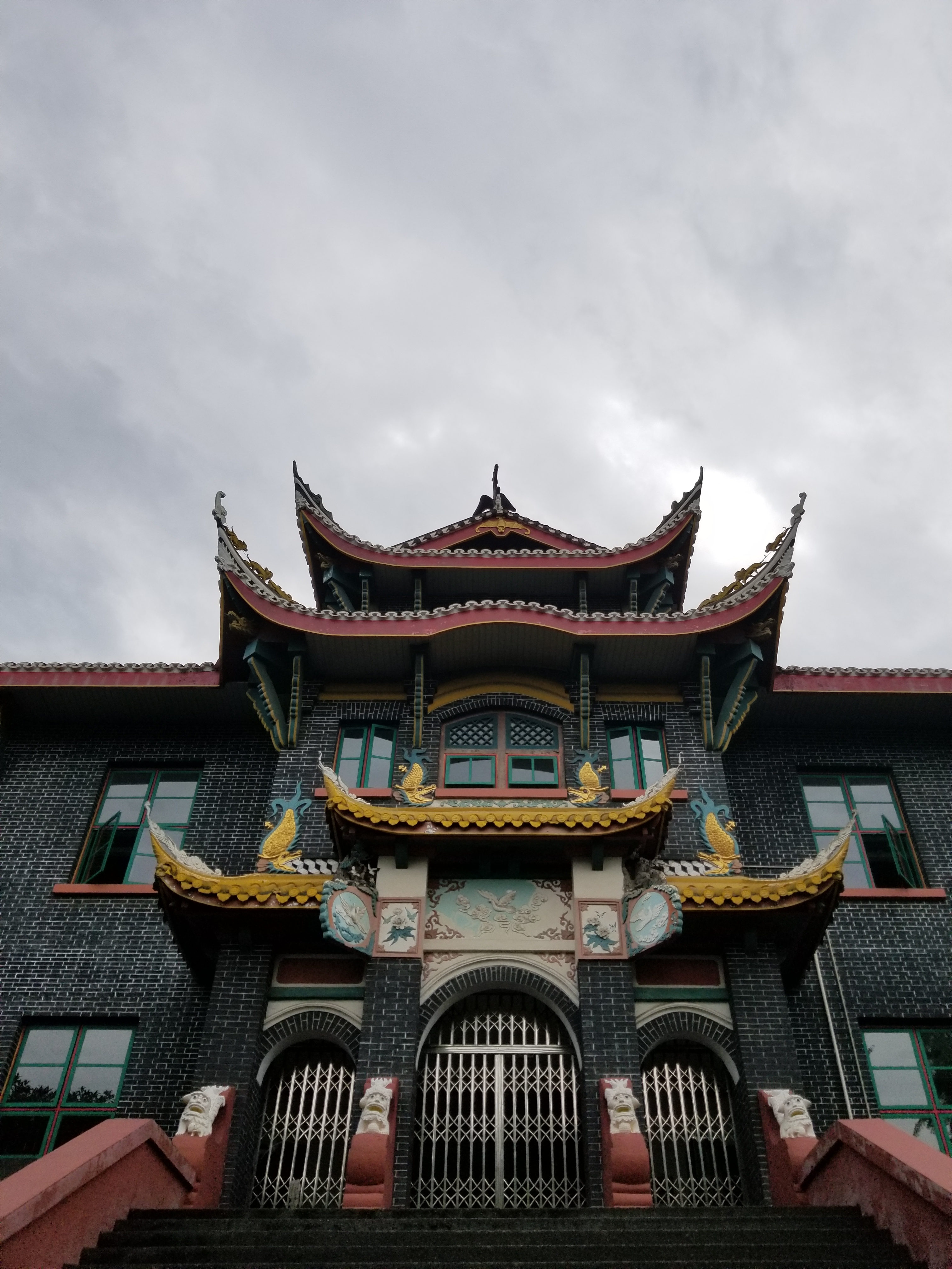 Historical campus building with blended Western and Chinese architecture styles